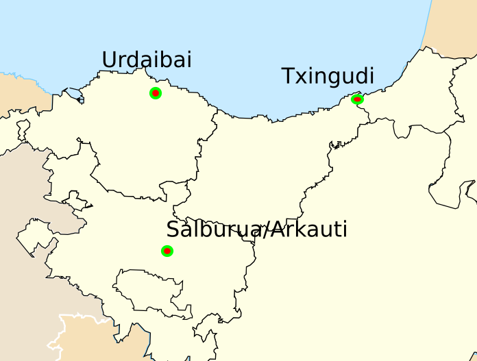 Location of some wetlands in the Basque Country